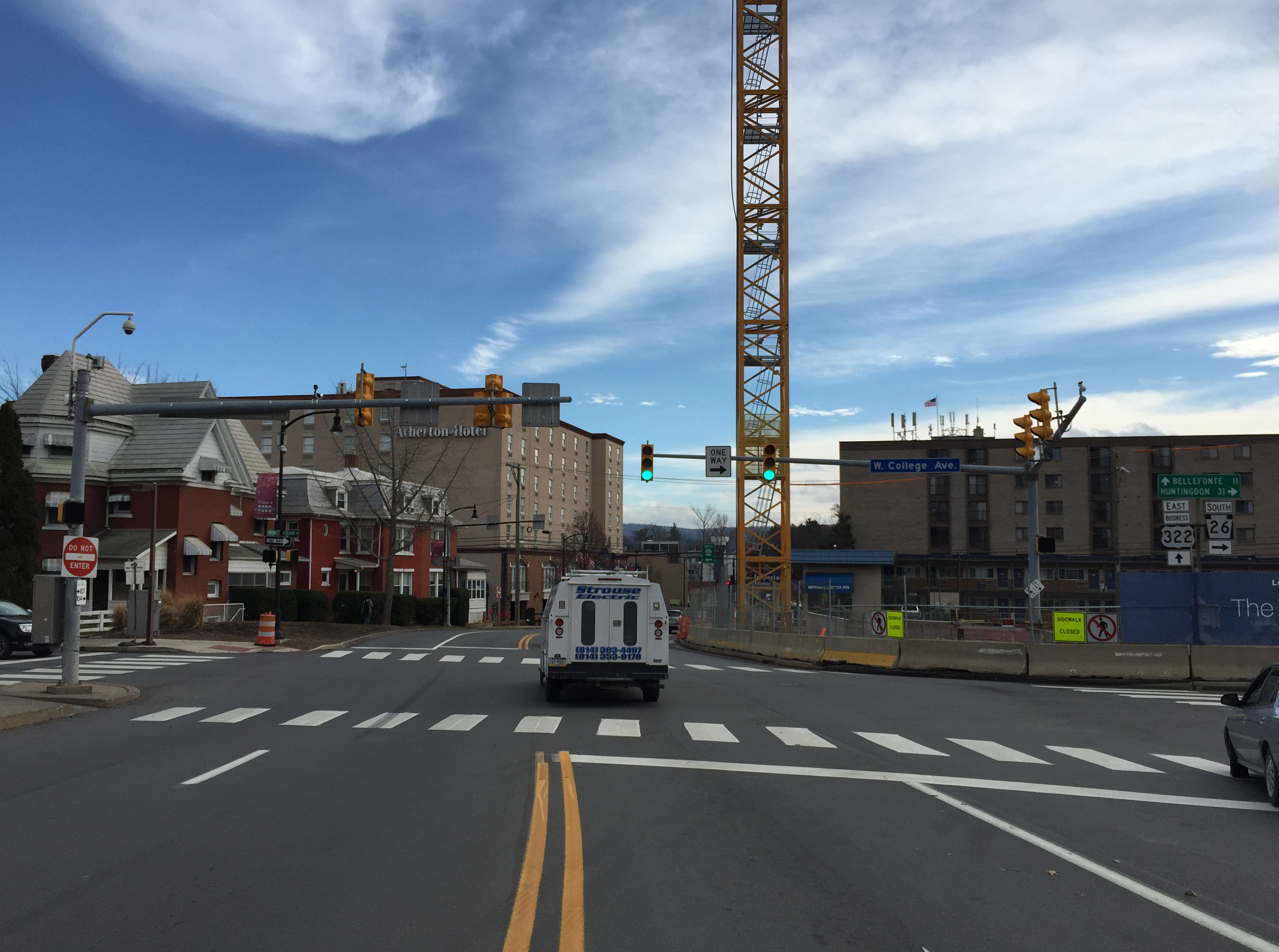 View east along Atherton Street (U.S. Route 322 Business) at College Avenue (Pennsylvania State Route 26) in State College, Pennsylvania